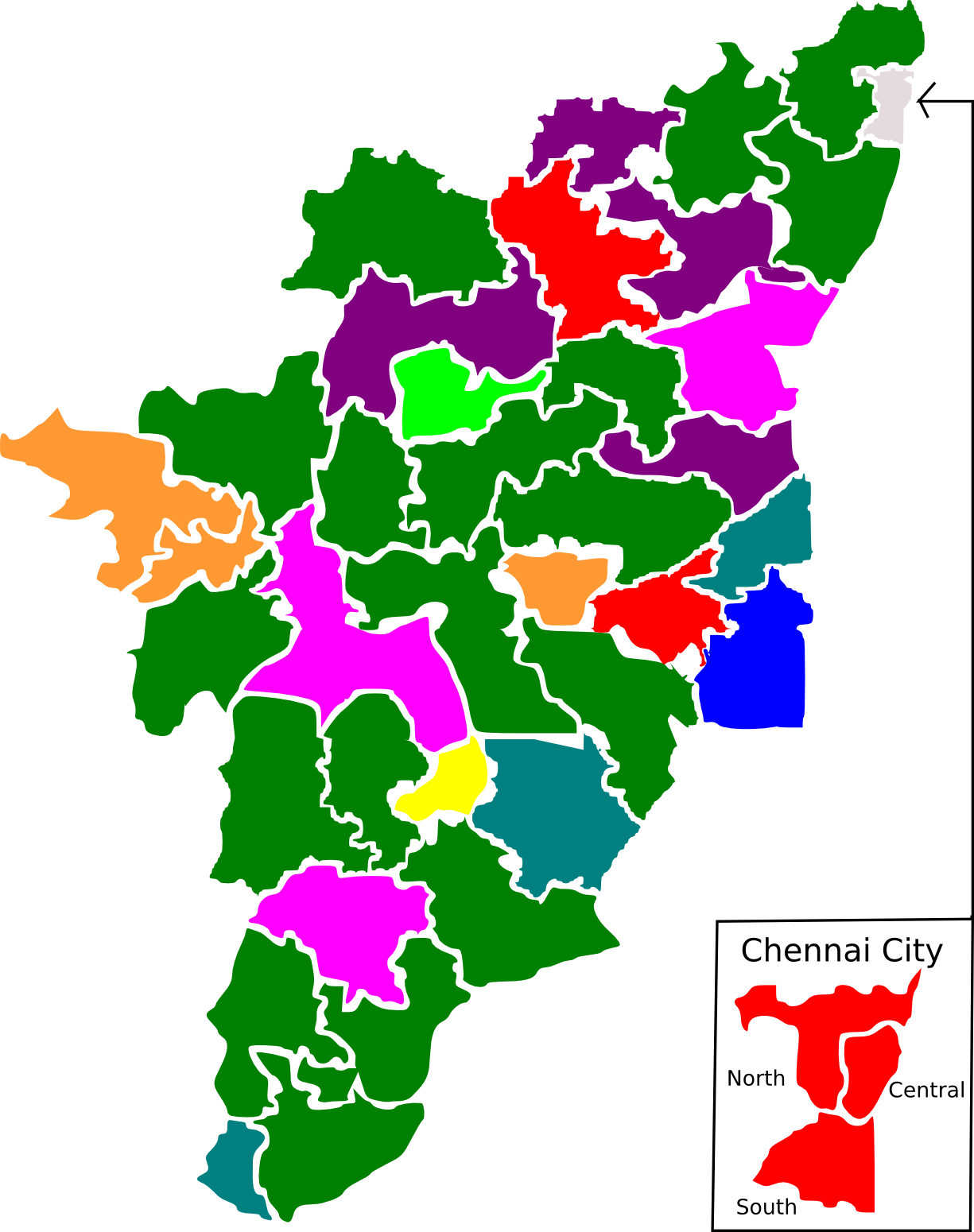 1998 Lok Sabha Election map for Tamil Nadu. Map is based on ECI drawn map. Results are based on ECI website.